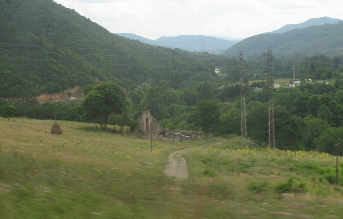 Saint Mother of God monastery, from middle of XII century, in Kuršumlija, Serbia.